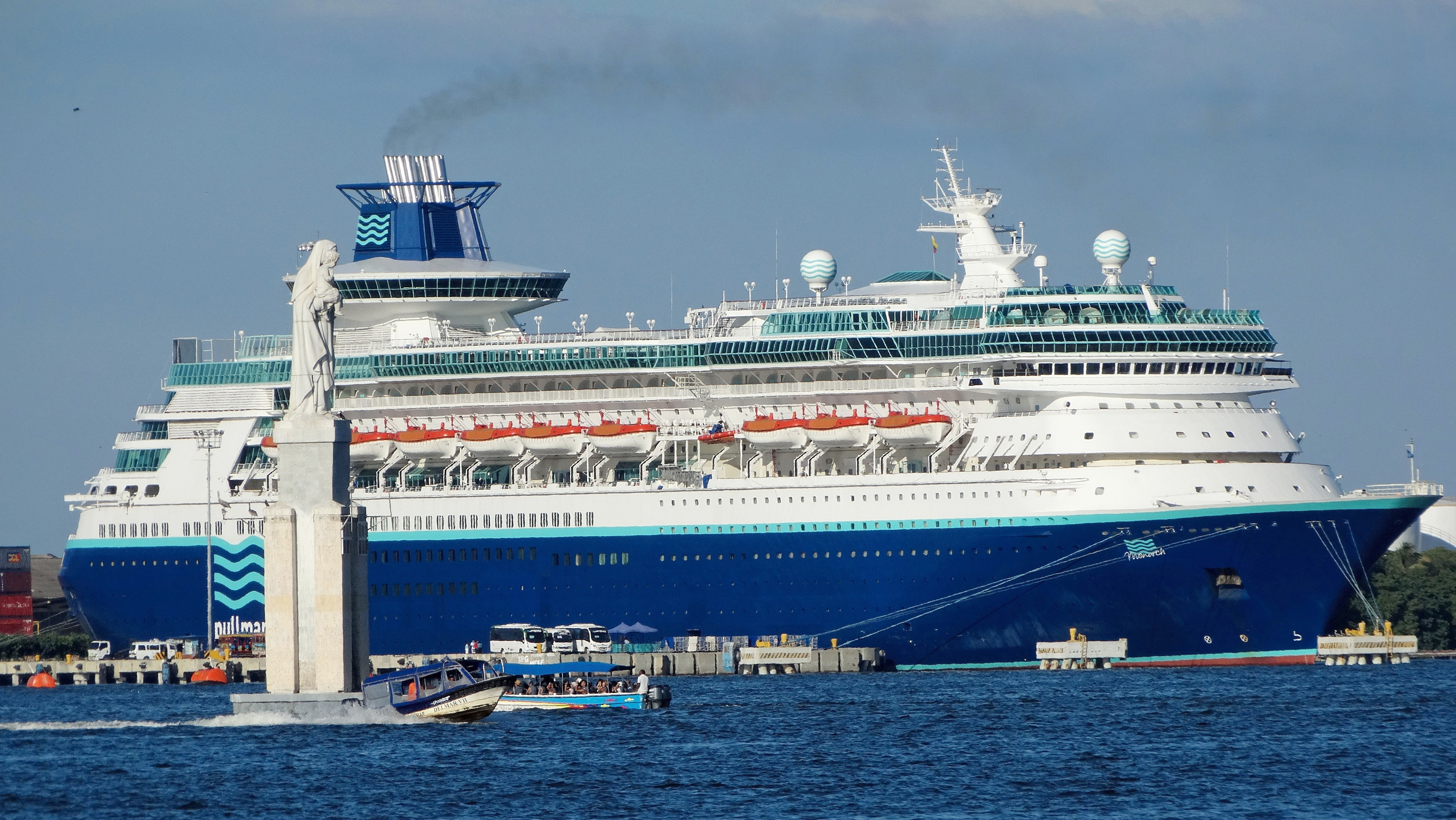 MS Monarch in Cartagena, with the 'Virgen Del Carmen' statue in the foreground.